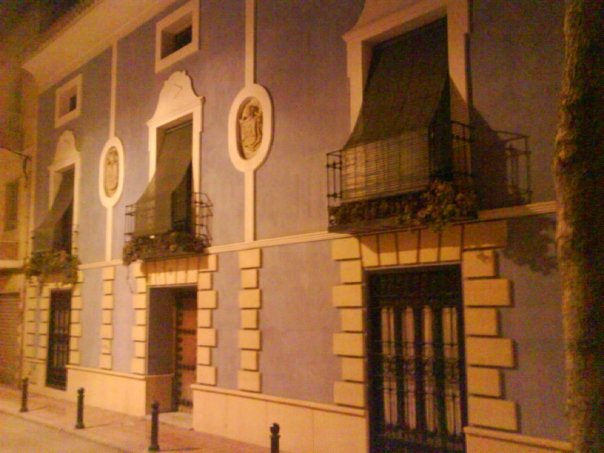 Old Quarter of the Guardia Civil in the city of Alcantarilla.